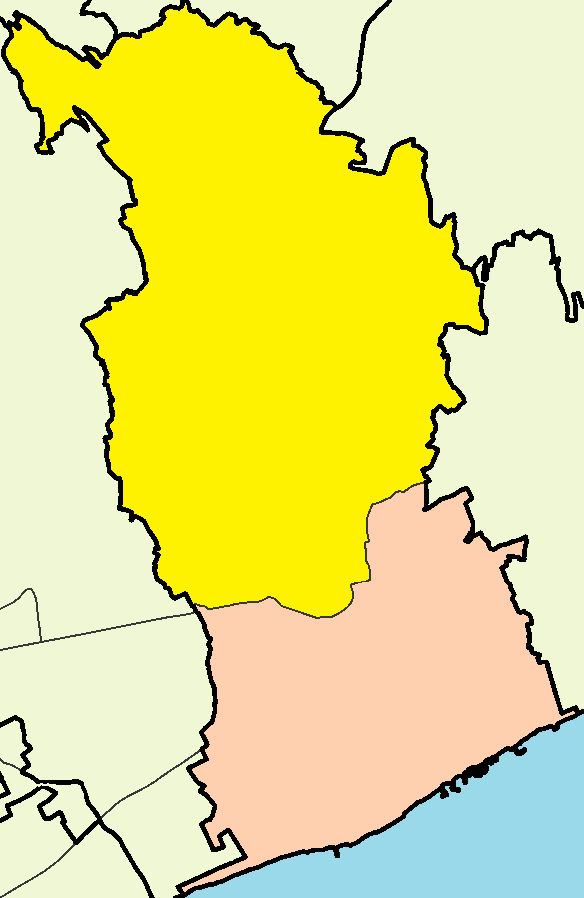 Saint Paraskevi in Germasogeia Municipality.